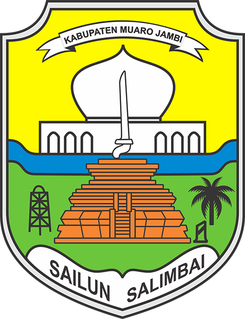 Lambang (Coat of Arms) of Kabupaten (Regency) Muaro Jambi, Provinsi Jambi (Jambi Province), Indonesia